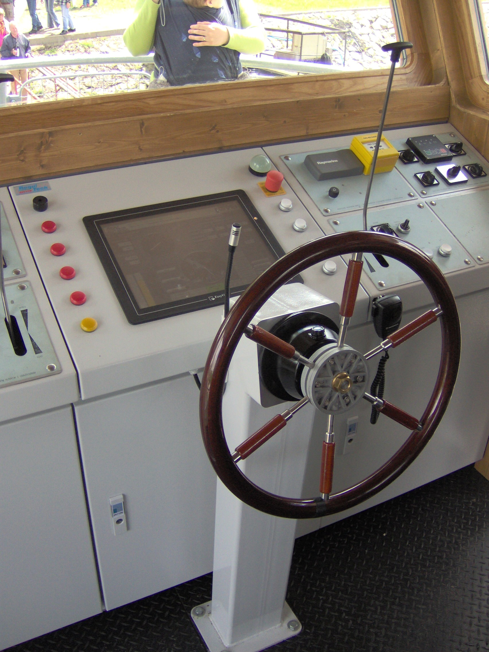 Lipsko ship, Bystrc, Brno, Czech Republic